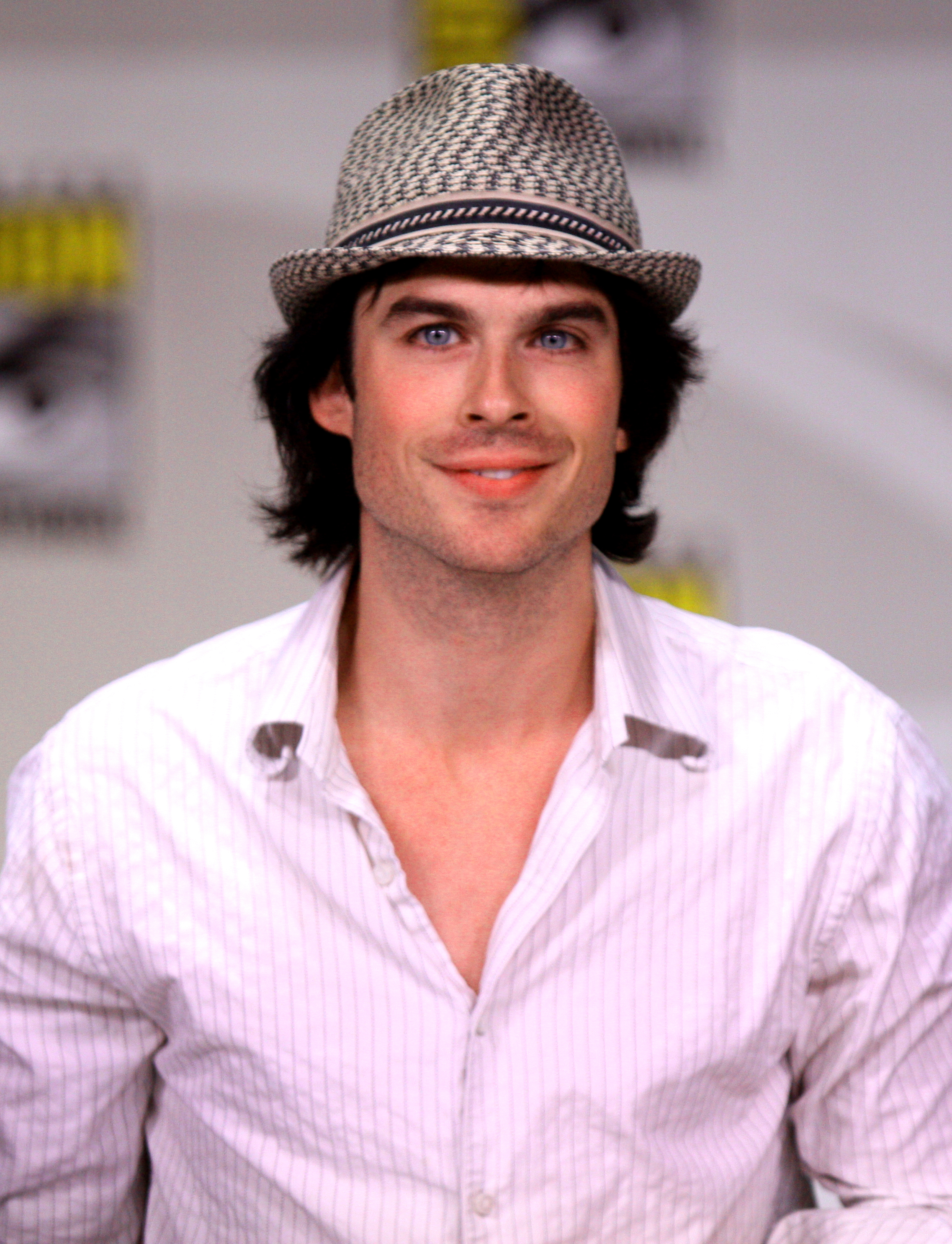 Ian Somerhalder